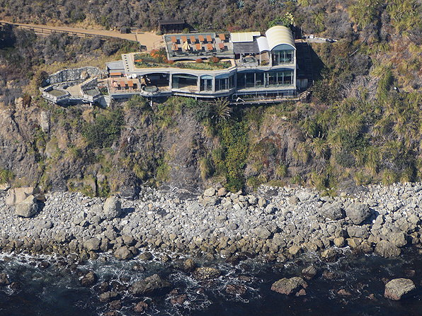 Aerial view of Slate's Hot Springs at Esalen Institute - File: DSC_7224-w.jpg.